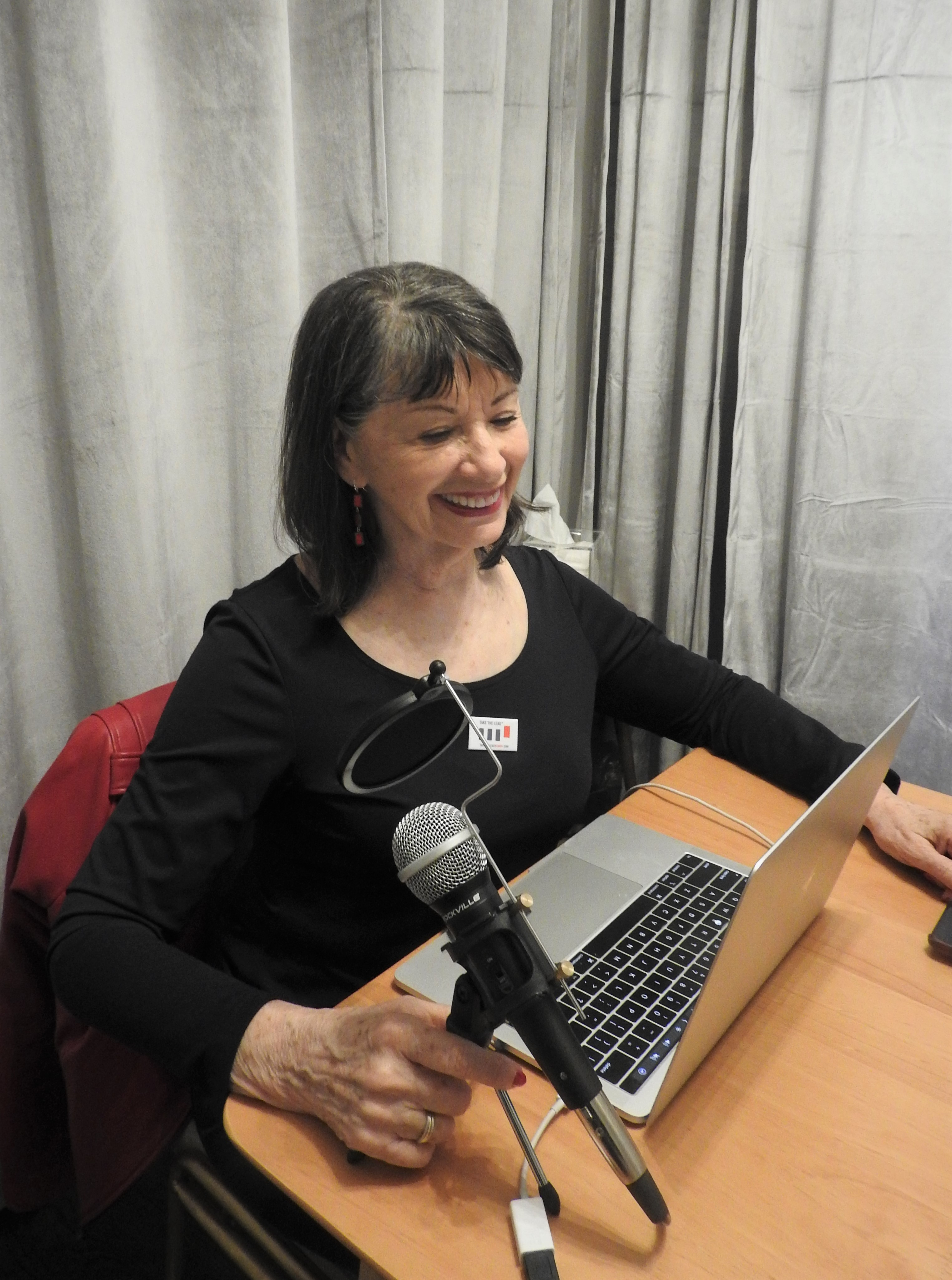 Gloria Feldt and her microphone and laptop